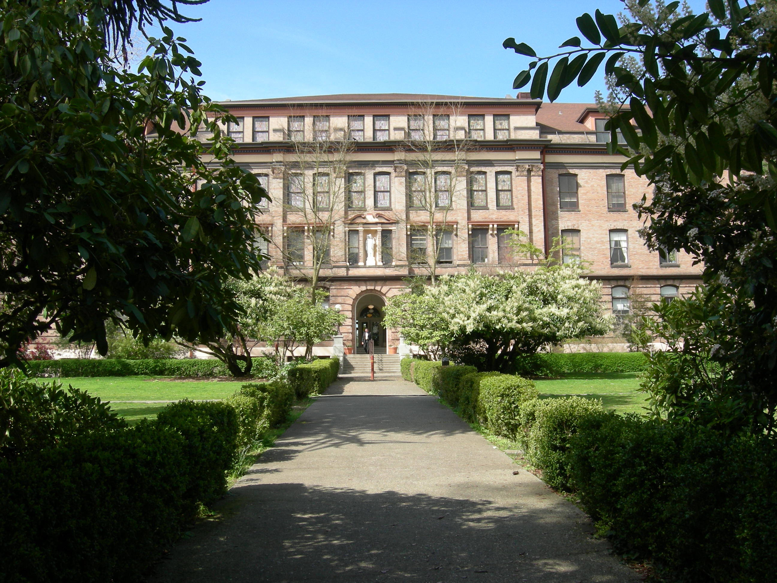 Good Shepherd Center, Wallingford, Seattle, Washington. The building is listed as an official city landmark and is also on the National Register of Historic Places.